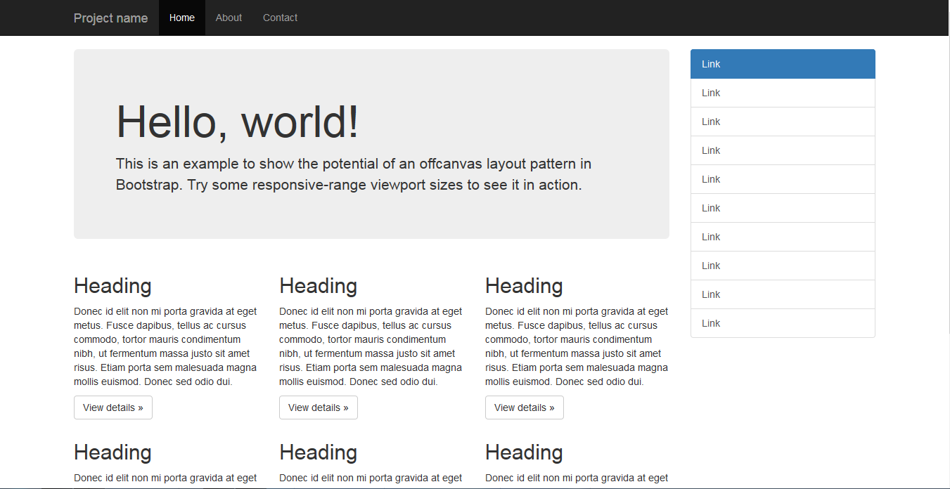 Demonstration of a simple usage of Twitter Bootstrap. Screenshot taken from the example Offcanvas